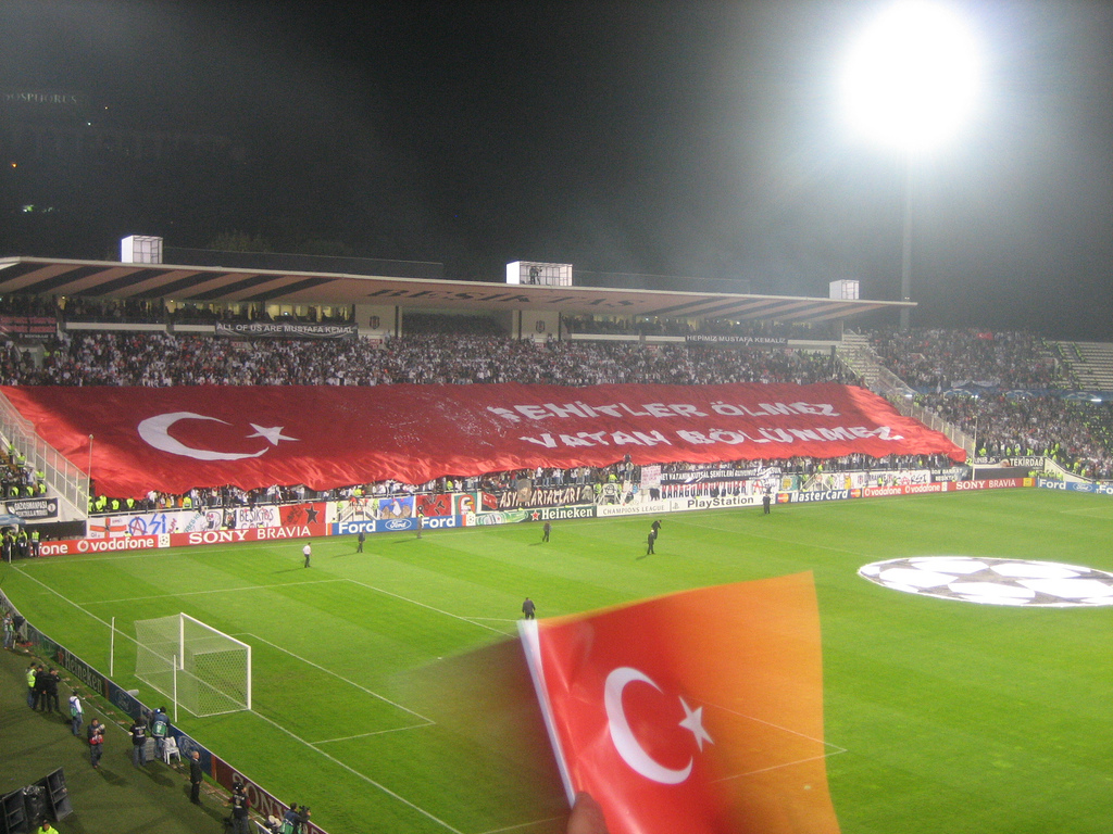 Champions League 07-08 first round match between Besiktas and Liverpool in Istanbul Inonu Stadium. Besiktas won 2-1.Besiktas - Liverpool (24.10.2007)